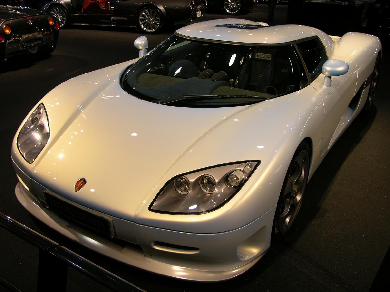 2008 London Motor Show